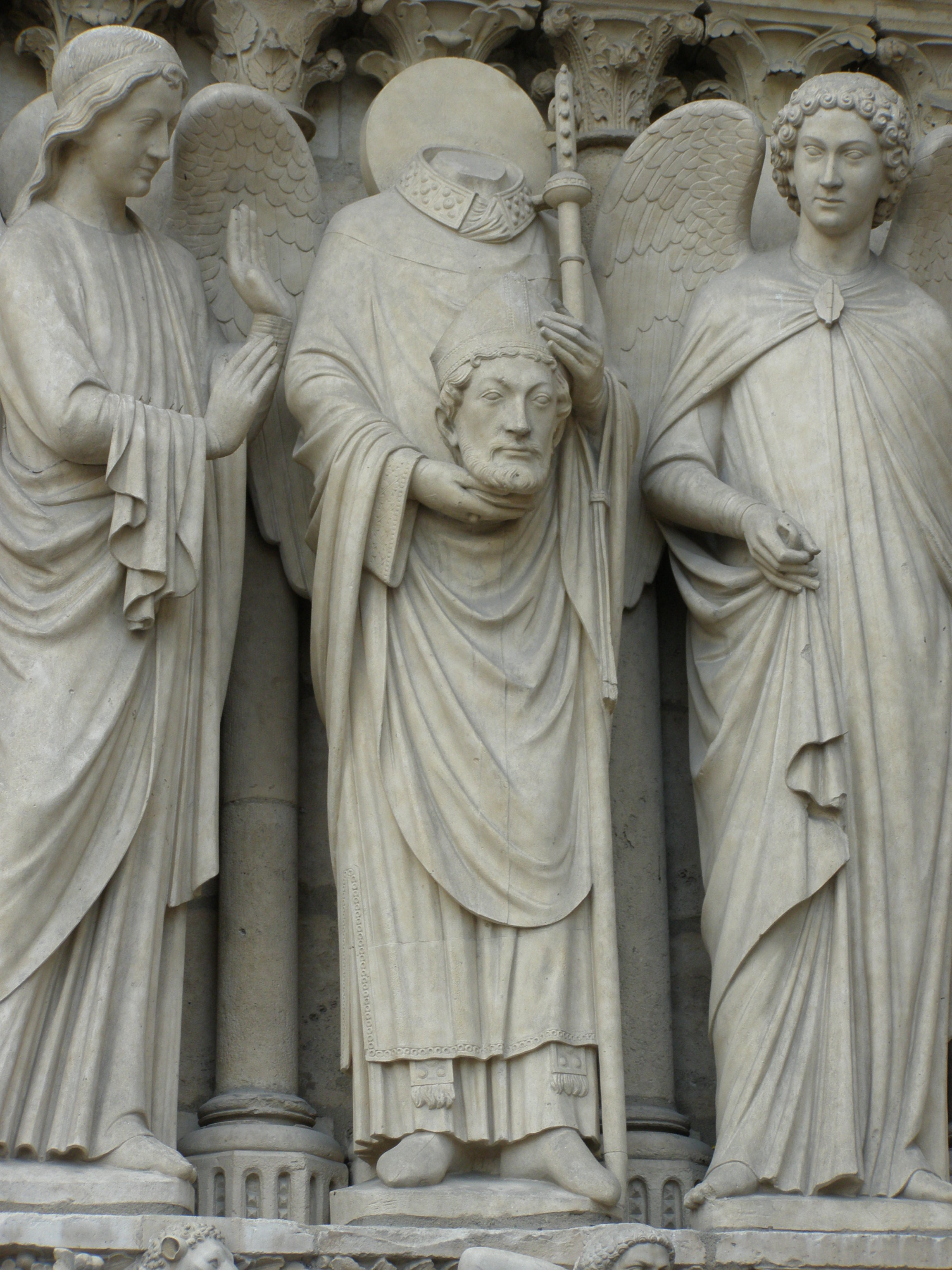 Figura św. Dionizego w portalu katedry Notre-Dame w Paryżu